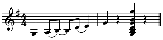 G run in G. Created by Hyacinth (talk) using Sibelius 5.